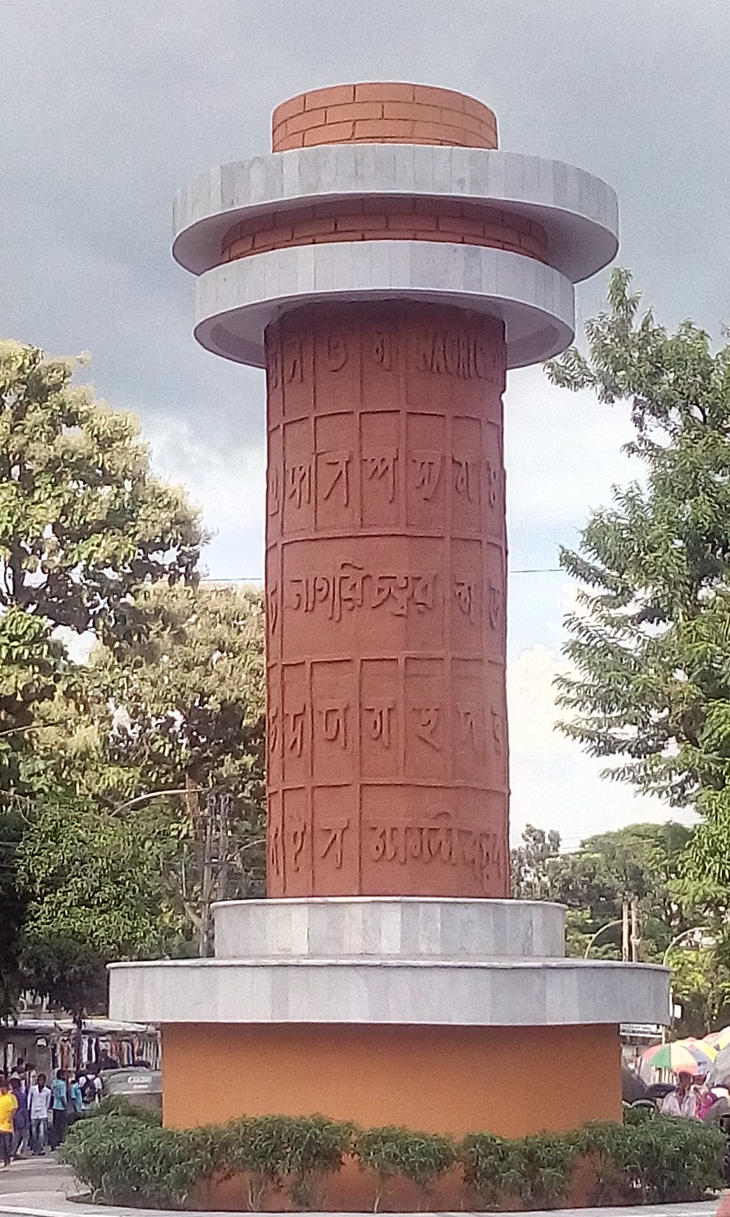 Sylheti Nagari is an endangered script used for writing Sylheti. This recently built structure namely "Nagari chattar" (Nagari Square) near Surma river in the city of Sylhet, Bangladesh consists of alphabets of this script.